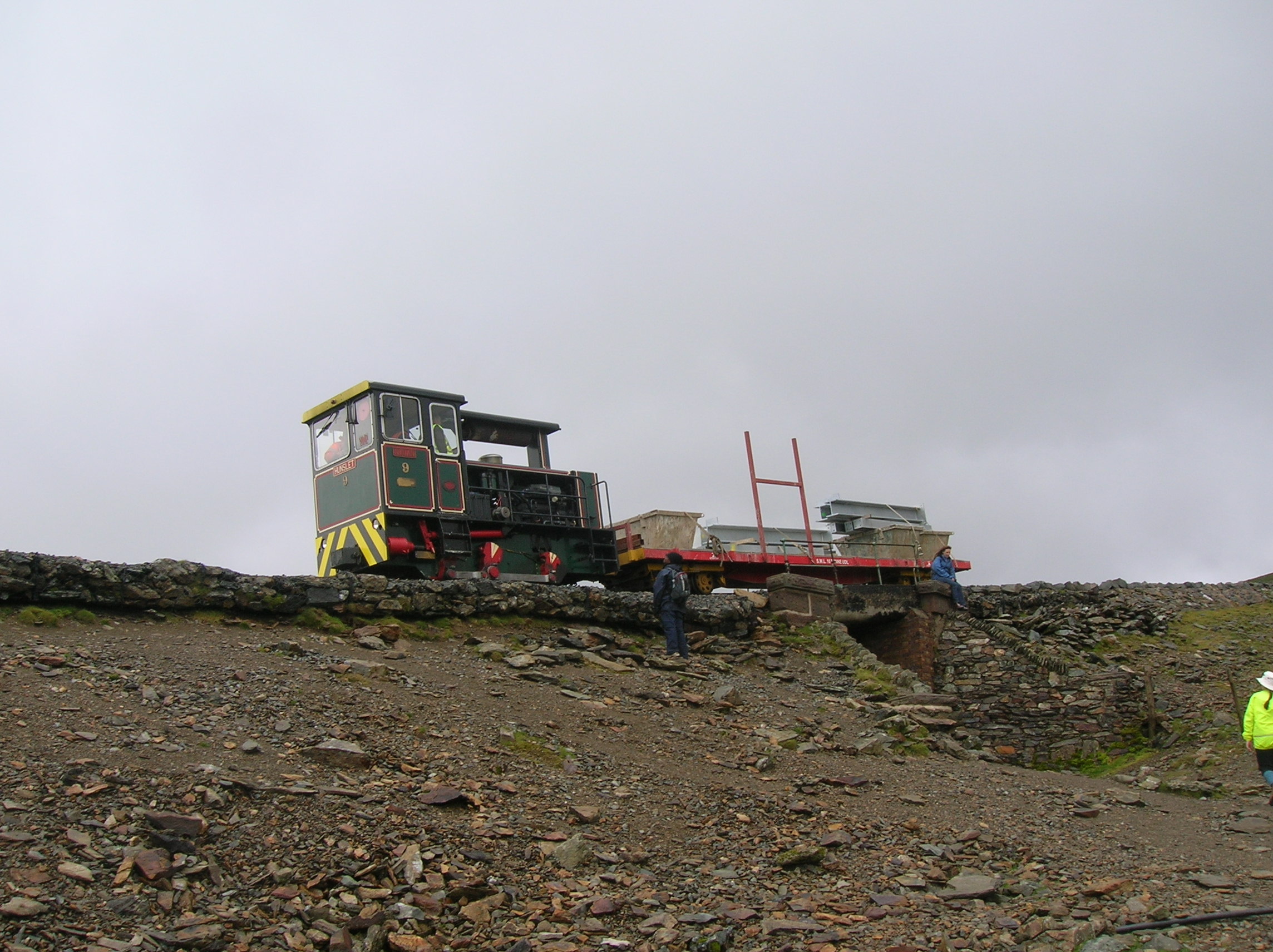 Work train on Snowdon Mountain Railway